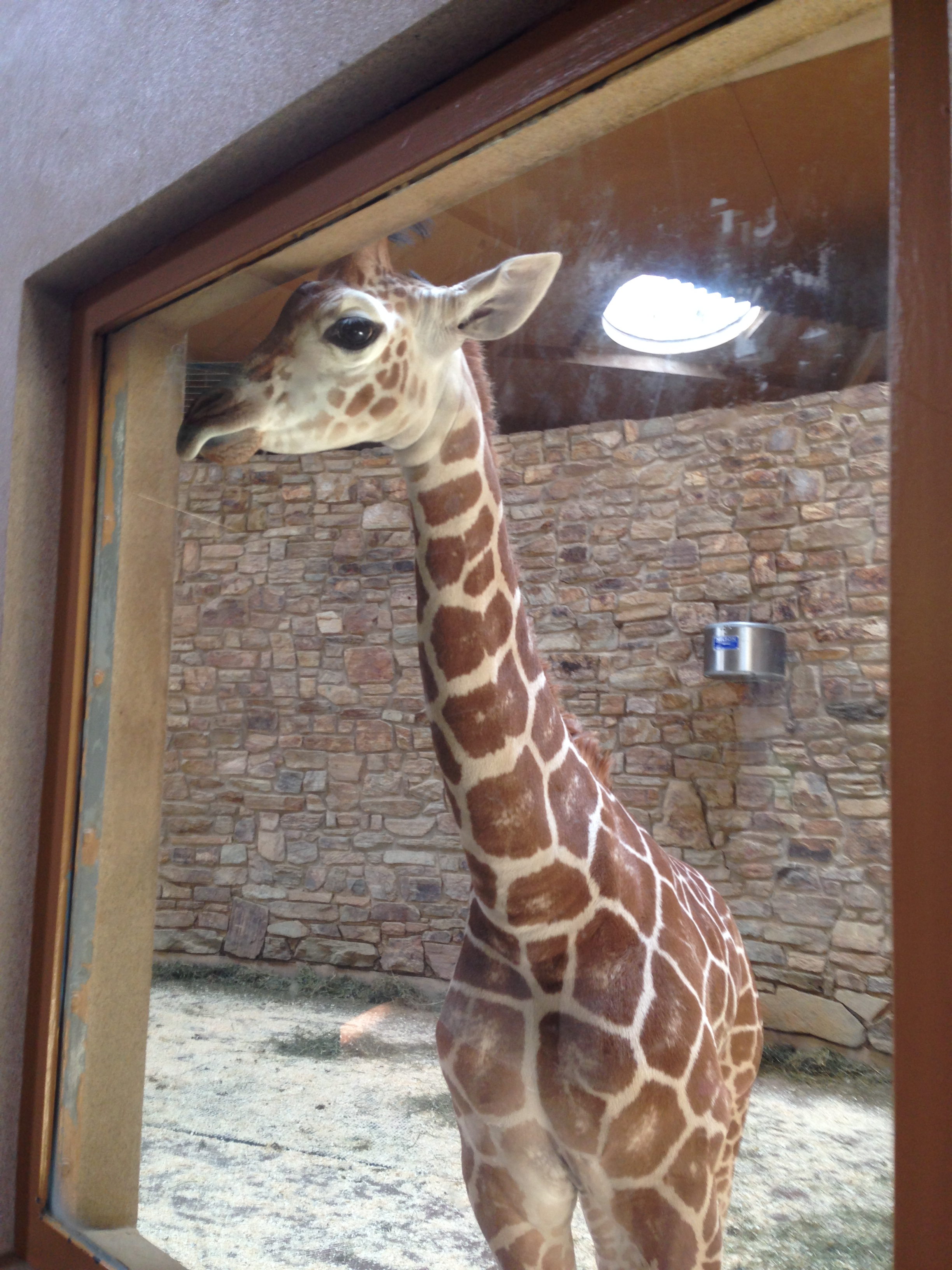 Willow, a Giraffa camelopardalis reticulata, (age 3 months old) at the Giraffe House at the Maryland Zoo in Baltimore.